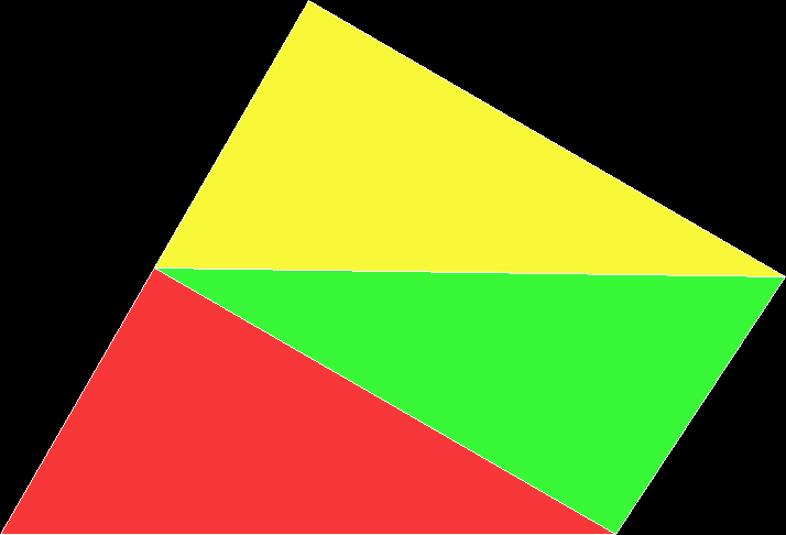 A tridrafter, or shape created from three 30-60-90° triangles.